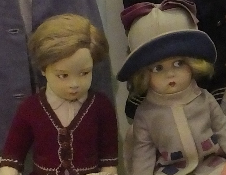 Taken during the tour and editathon at the Judges' Lodgings, Lancaster. The upper floor of the museum contains the Childhood collection. Lenci